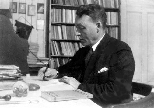 Johan Austbø in his study.